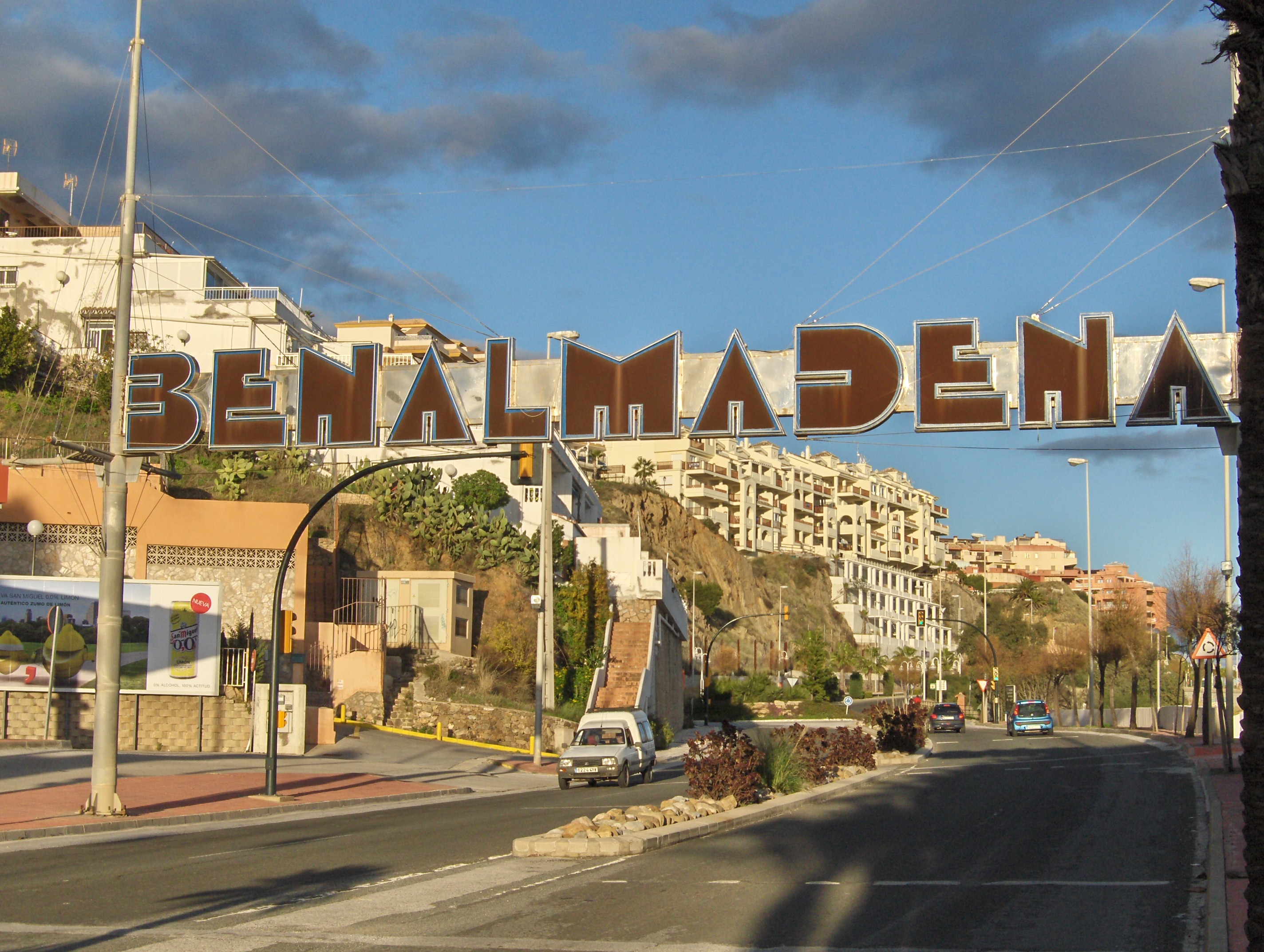 Entry sign to Benalmádena from Fuengirola.